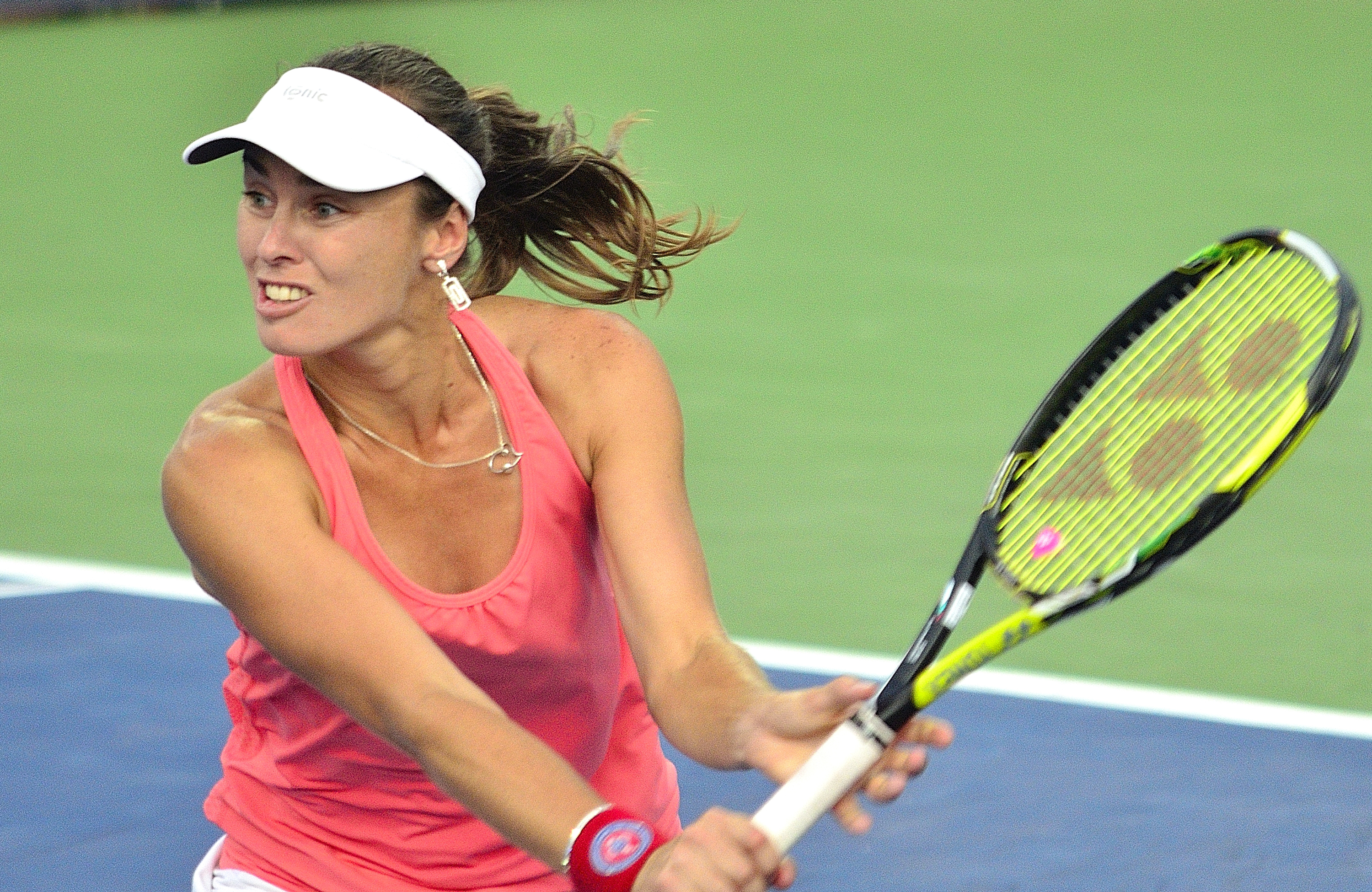 Queens, NY August 30, 2013 Sara Errani (ITA) / Roberta Vinci (ITA) [1] def. Daniela Hantuchova (SVK) / Martina Hingis (SUI) Court 17